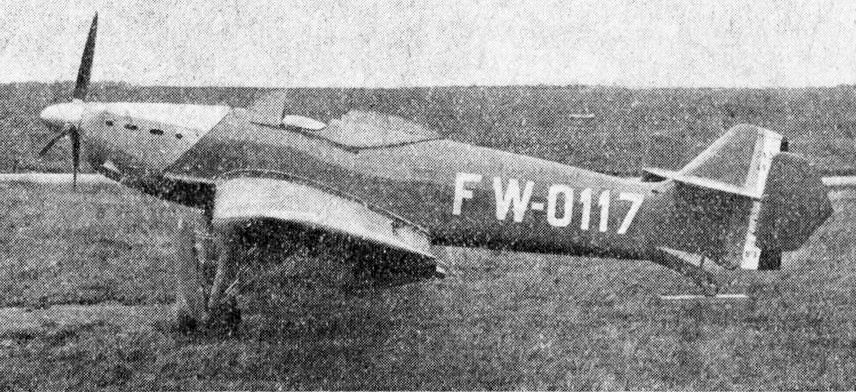 Loire Nieuport LN-40 photo from L'Aerophile August 1943